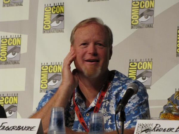 American actor Bill Fagerbakke sitting on the SpongeBob SquarePants panel at the 2009 San Diego Comic-Con